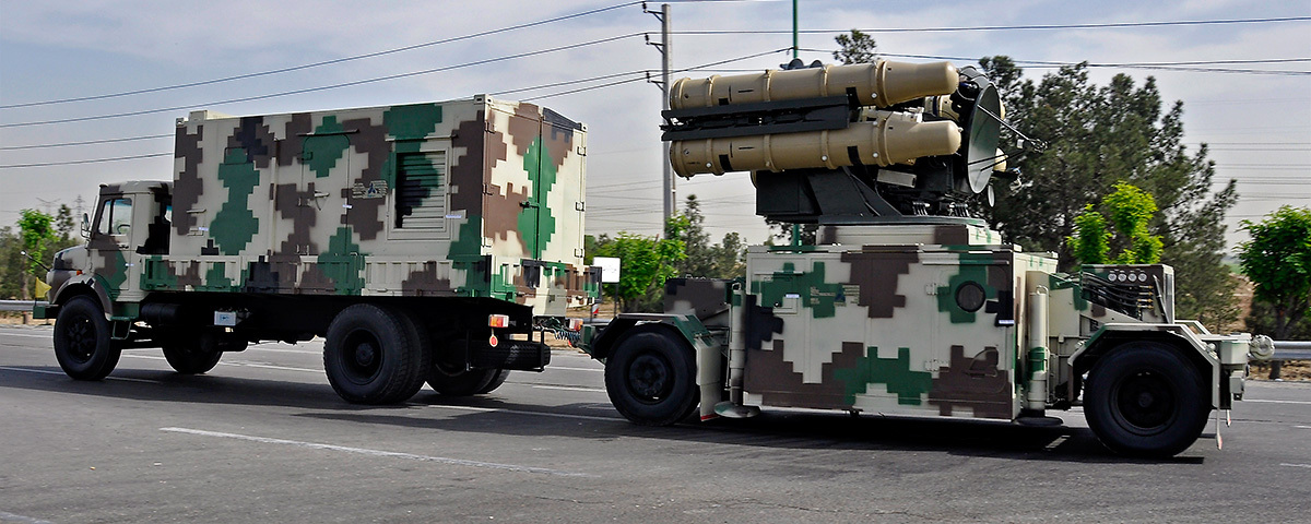 Ya Zahra SAM system @ Iran Military Day 2013